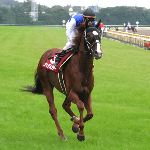 Daiwa Major(Rracehorse, Tokyo Racecourse on October 9, 2005) ダイワメジャー（2005年10月9日、東京競馬場で撮影、撮影者 Goki）